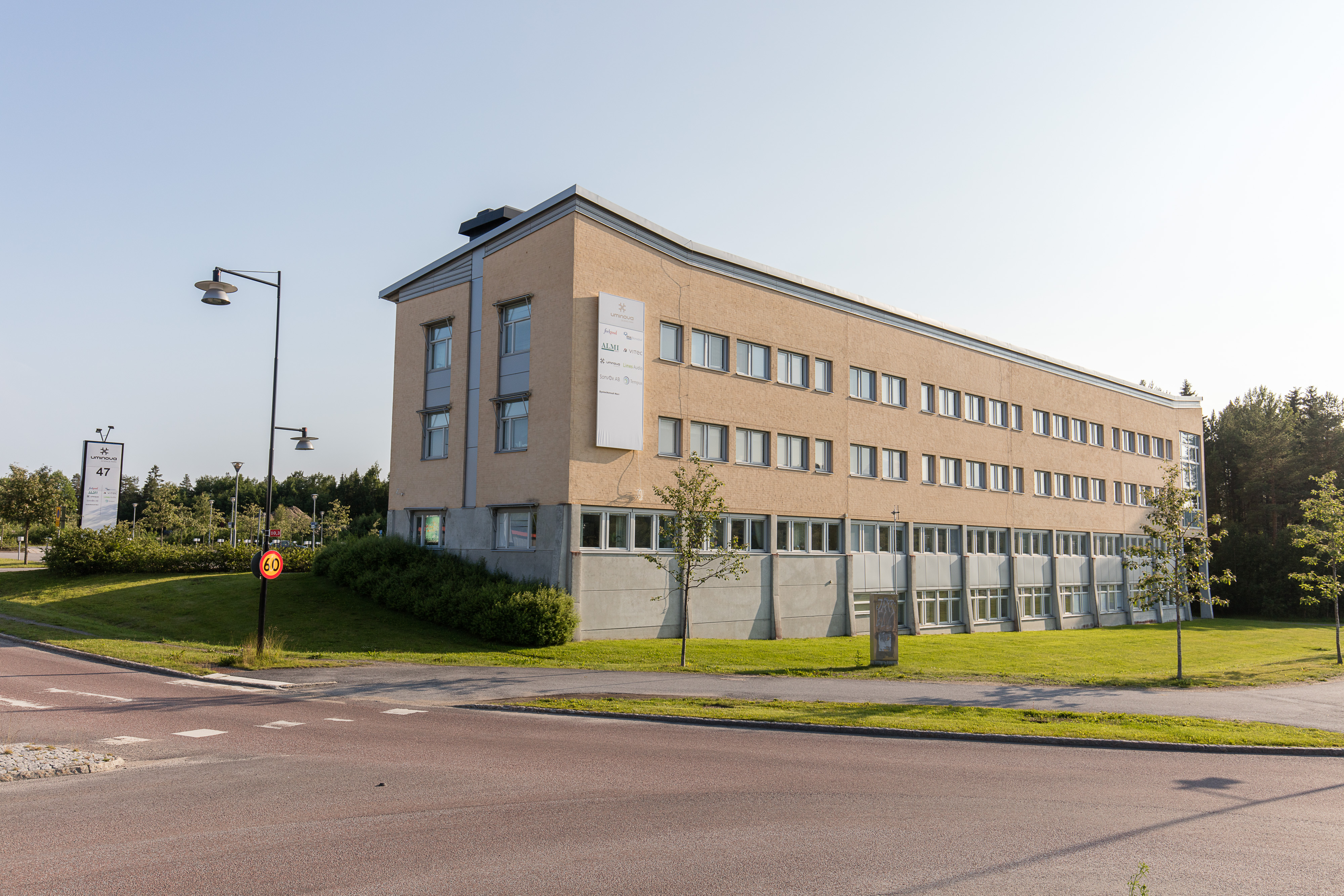 Uminova Innovation helps in development of business ideas from researchers, students and employees at universities and hospitals in Umeå.